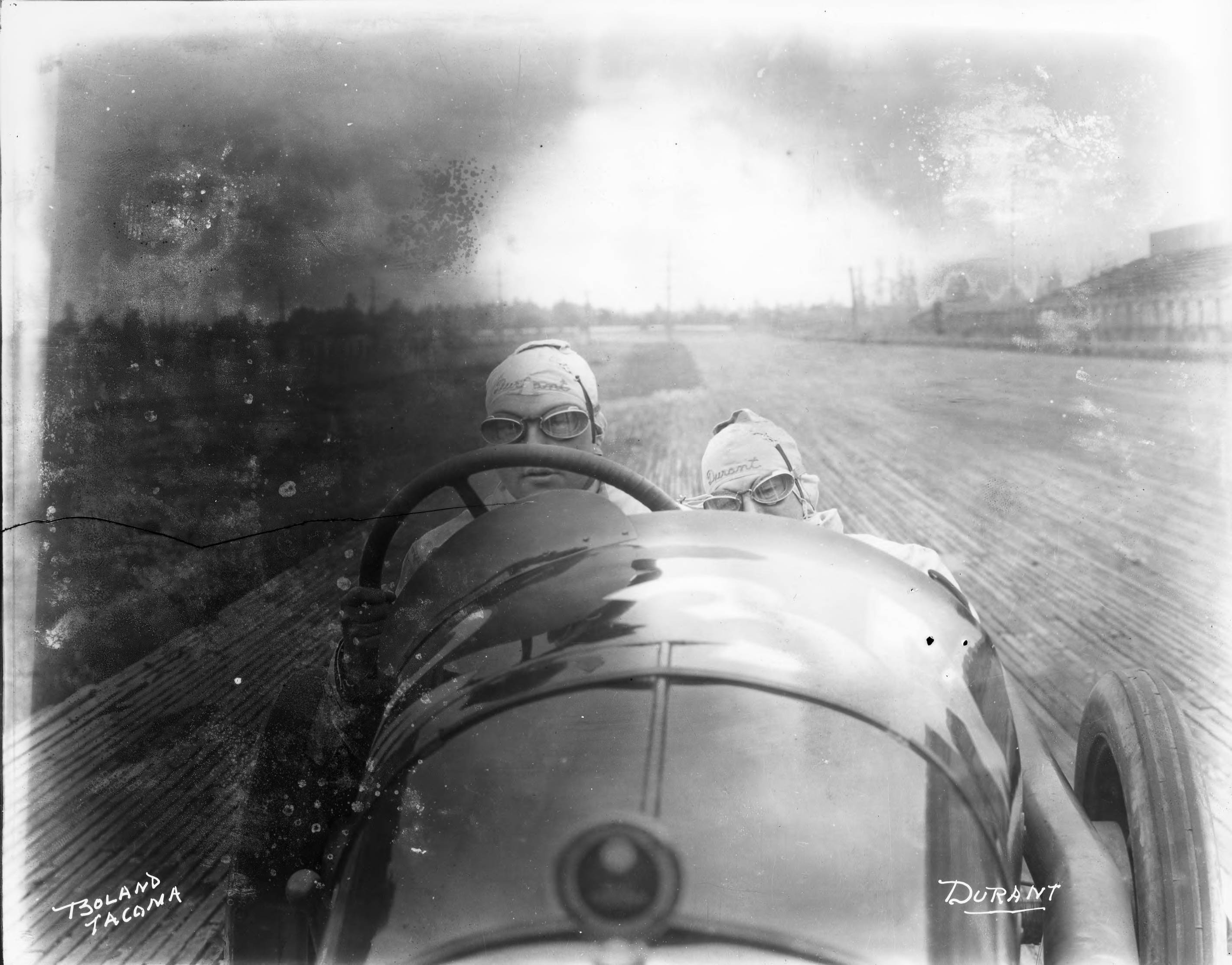 California sportsman and car manufacturer Cliff Durant at the wheel of his blue Durant Special, accompanied by his mechanic, circa 1922. Mr. Durant, a favorite of Northwest race fans, arrived in Tacoma on June 28, 1922, to compete in the eleventh annual race at the Tacoma Speedway. He joined a cast of nationally known racers for the July 4th event, including Ralph Mulford, Roscoe Sarles, Jimmy Murphy and defending champion Tommy Milton for a total purse of $25,000. Mr. Durant was using the same car in which Tommy Milton had captured the national championship. Newspapers announced that this was to be Mr. Durant's last race of his illustrious career as the business world had taken over his attention. His Durant Special qualified fourth with average speed of 104.5 mph, as the track and cars ran extremely fast. Jimmy Murphy, who had won the pole position with nearly 109 mph, would eventually defeat Tommy Milton by just a few seconds. Mr. Milton had led the majority of the distance before tire changes cost him the race. Cliff Durant did not finish the race as broken rear axles claimed both his and Ralph Mulford's Leach Special. (print from badly damaged negative) (TDL 7-5-22, p. 1-results)